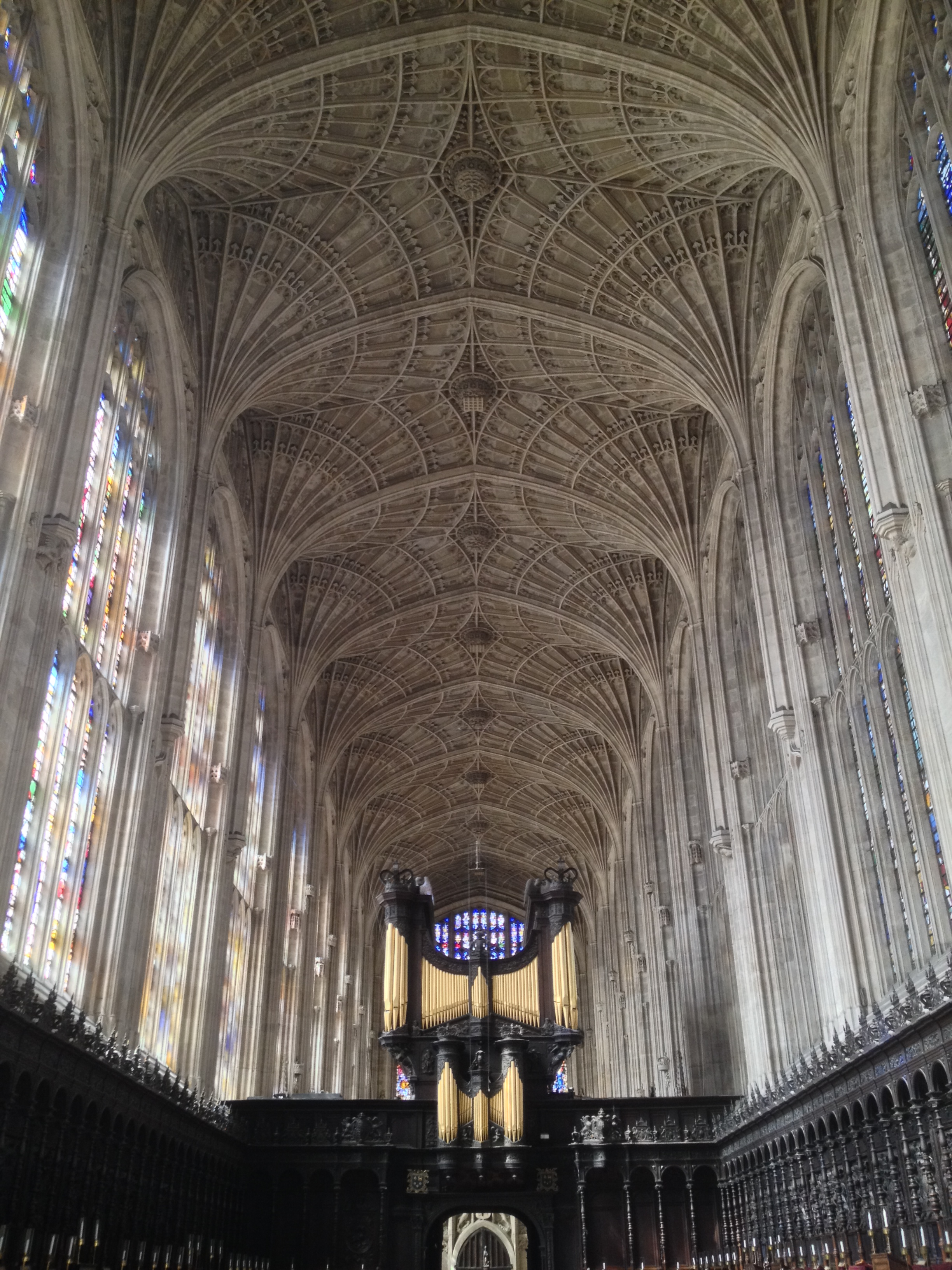 Cambridge King's College Chapel